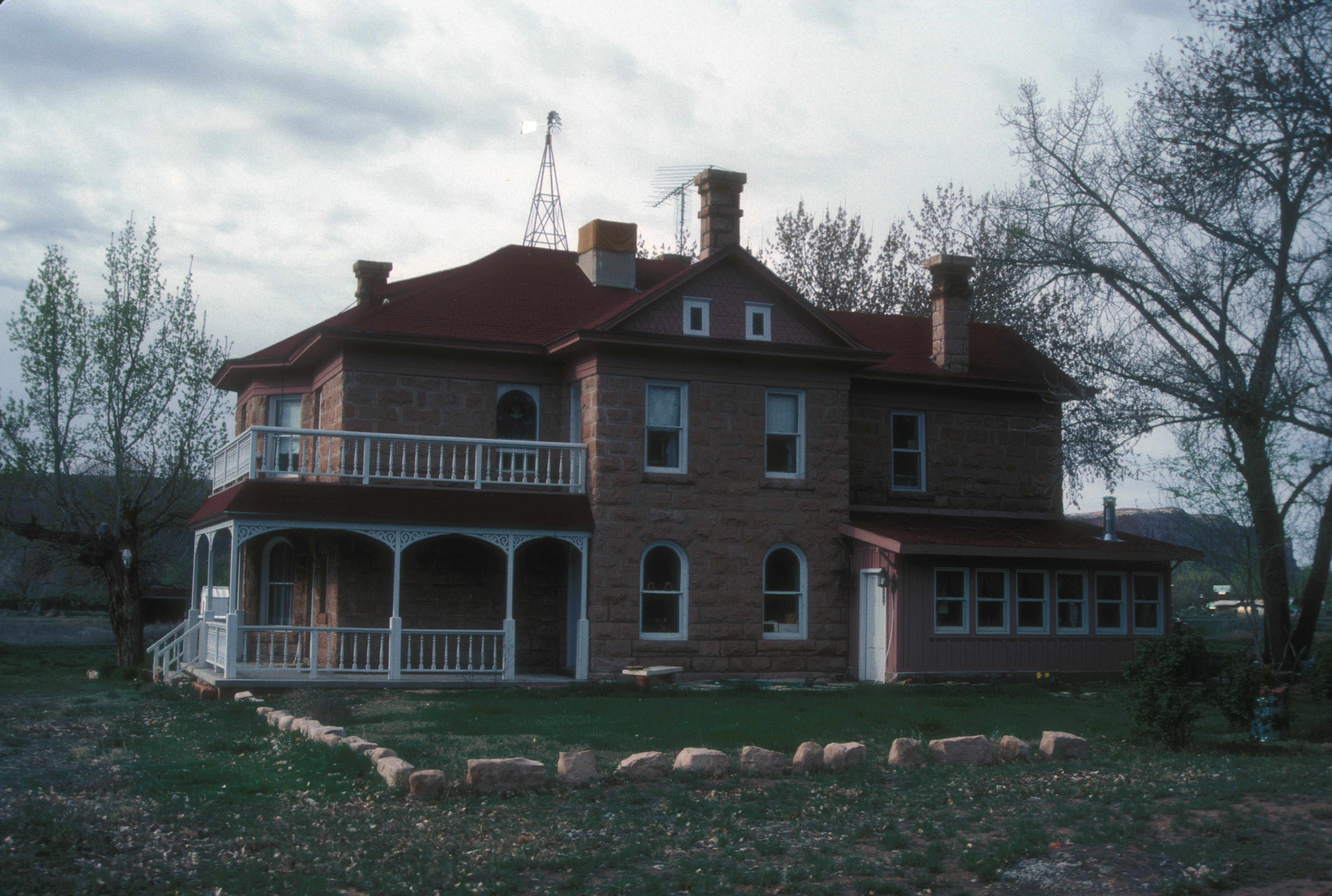 BUILT IN MID 1890’S